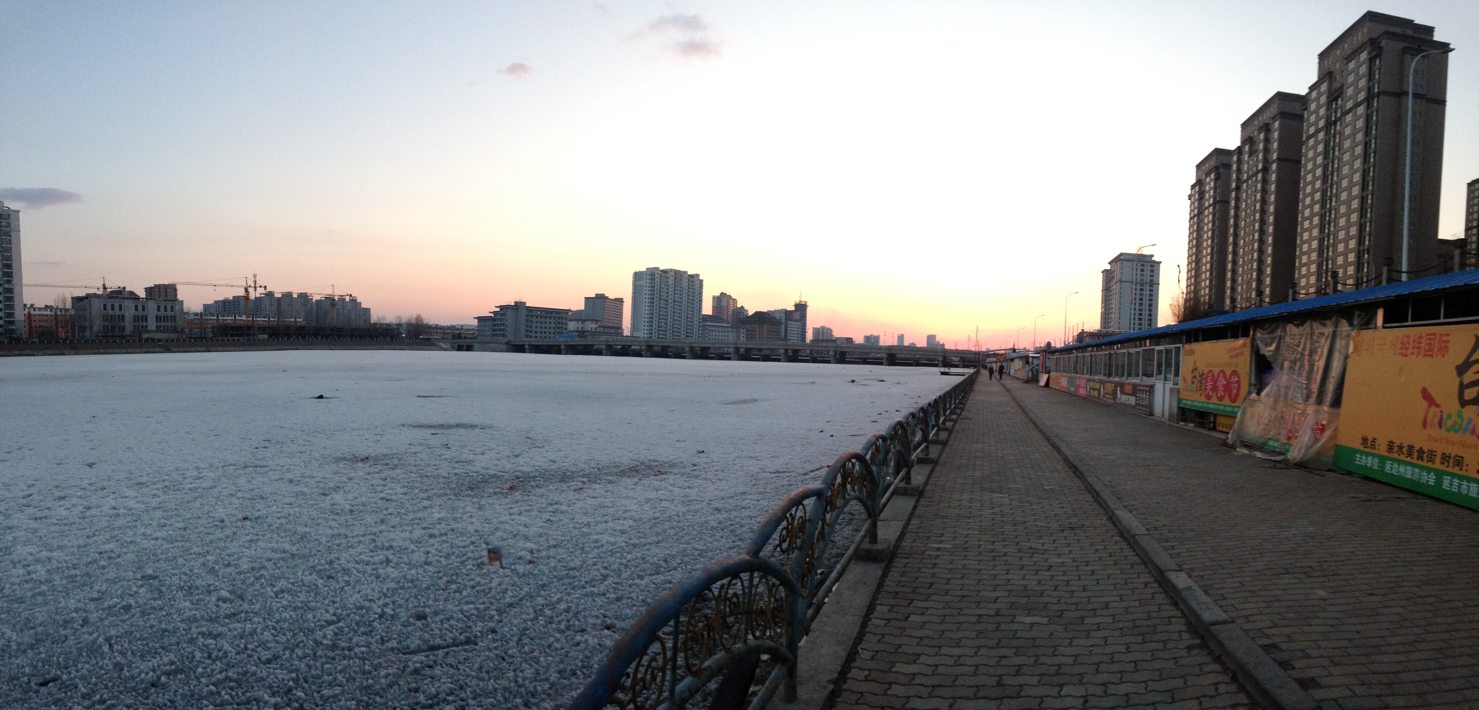 Buerhatong River and Juzi Bridge in Winter